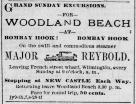 July 15, 1880 advertisement for steamboat excursions to Woodland Beach, Delaware.